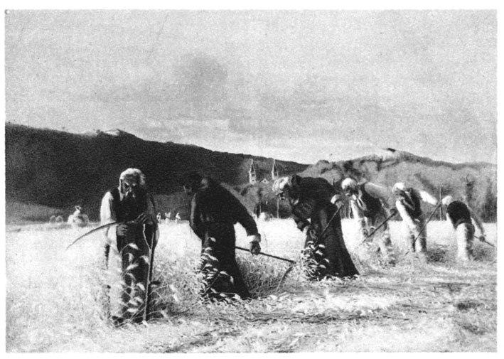 Croats of Bosnia and Herzegovina, harvesting of the fields